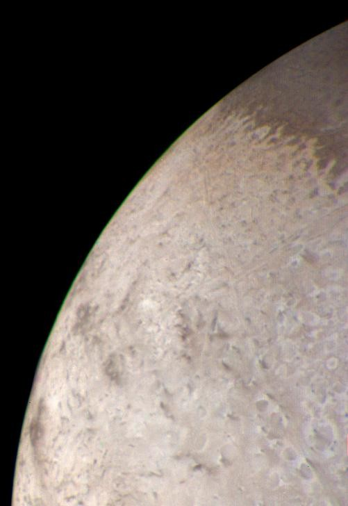 Original Caption Released with Image: This natural color image of the limb of Triton was taken early in the morning of Aug. 25 1989, when the Voyager 2 spacecraft was at a distance of about 210,000 kilometers (128,000 miles) from the icy satellite. The largest surface features visible area about 3 miles across. The picture is a composite of images taken through the violet, green and clear filters. The image shows a geologic boundary between a rough, pitted surface to the right and a smoother surface to the left. The change between surface types is gradual. The image also shows a color boundary between pinkish material in the upper part of the image and whiter material in the lower part. The geologic and color boundaries are not the same. That implies that whatever supplies the color is avery thin coating over a different underlying material in which the geologic boundary occurs. The colored coating may be a seasonal frost composed of compounds volatile enough to be sublimated at the very low temperatures (40 °K to 50 °K, or -387.4 °F to -369.4 °F) prevailing near Triton's surface. Possible compositions of the frost layer include methane (which turns red when irradiated), carbon monoxide or nitrogen. The color in this image is somewhat exaggerated: Triton is primarily a white object with a pinkish cast in some areas. The Voyager Mission is conducted by JPL for NASA's Office of Space Science and Applications.